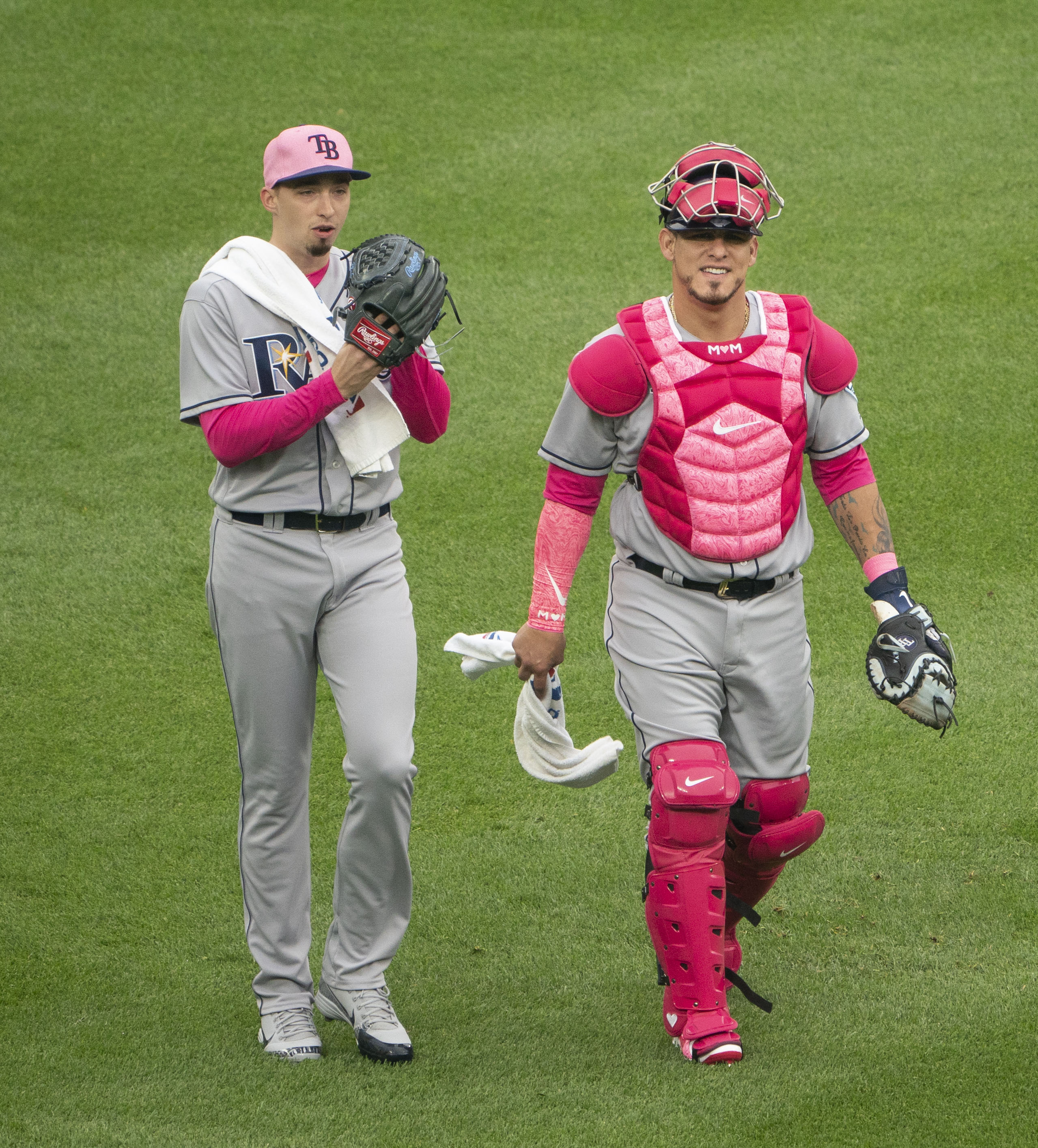 Blake Snell (left) and Wilson Ramos of the Tampa Bay Rays wearing Mothers' Day uniforms before a game against the Baltimore Orioles at Camden Yards in Baltimore in 2018